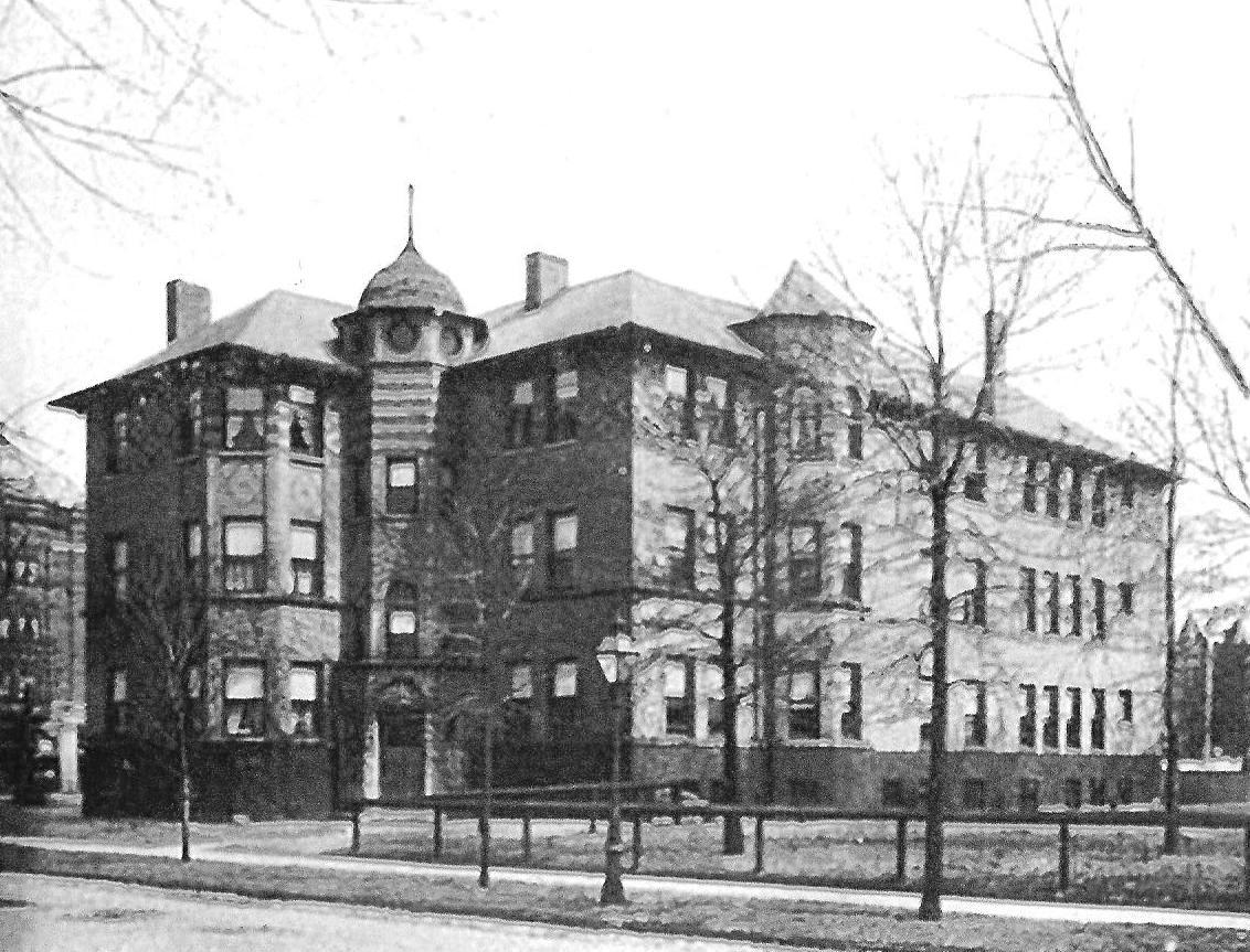 Photograph of Apartment House for Jas. G. Miller in Chicago, Illinois (designed by Pond and Pond)